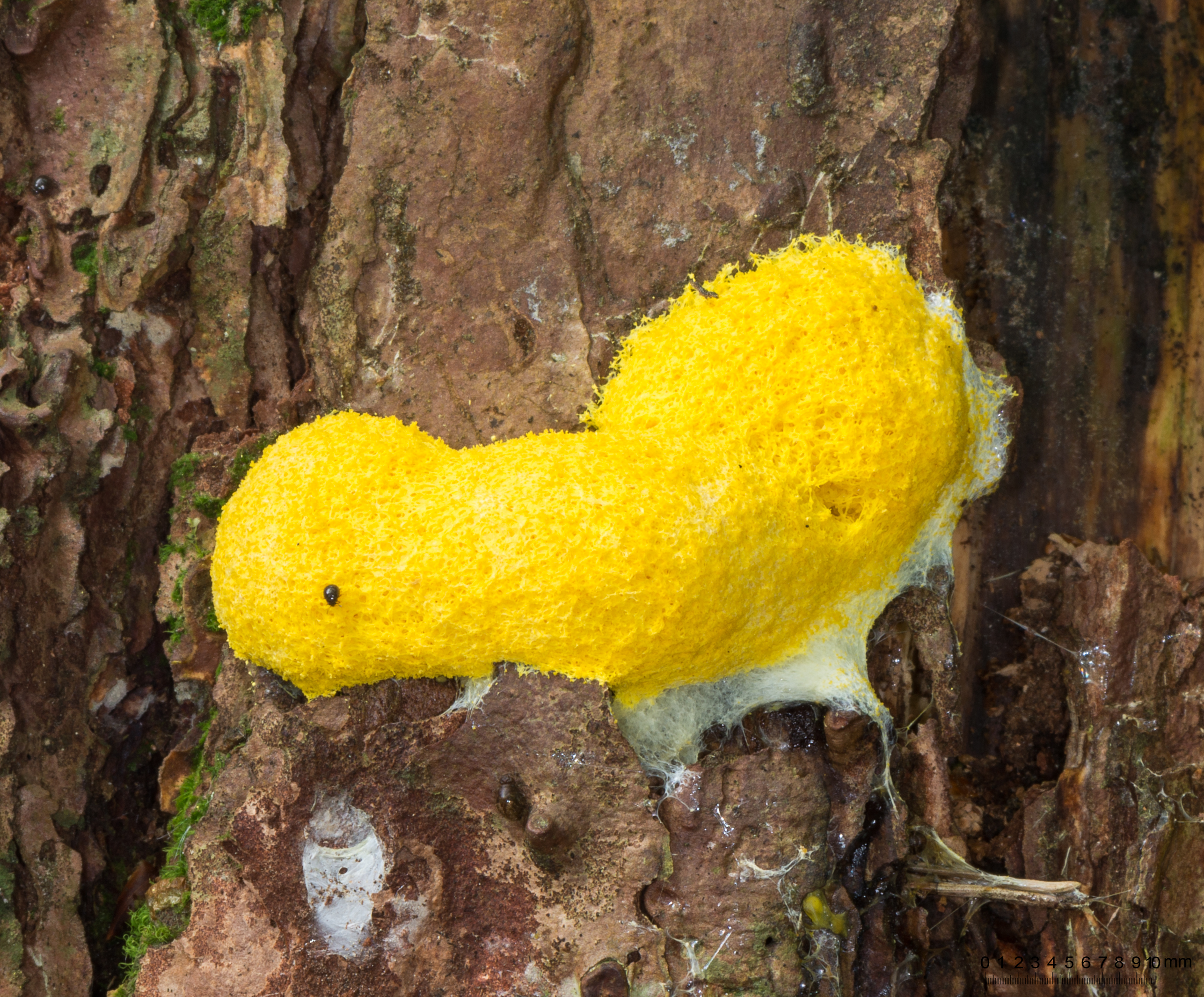 Slime mold Fuligo septica found in the forest near Mörfelden-Walldorf, Hesse, Germany.